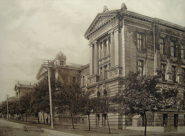 This is photo view of Odessa from Souvenir Photo Album published in Odessa circa early XX century.